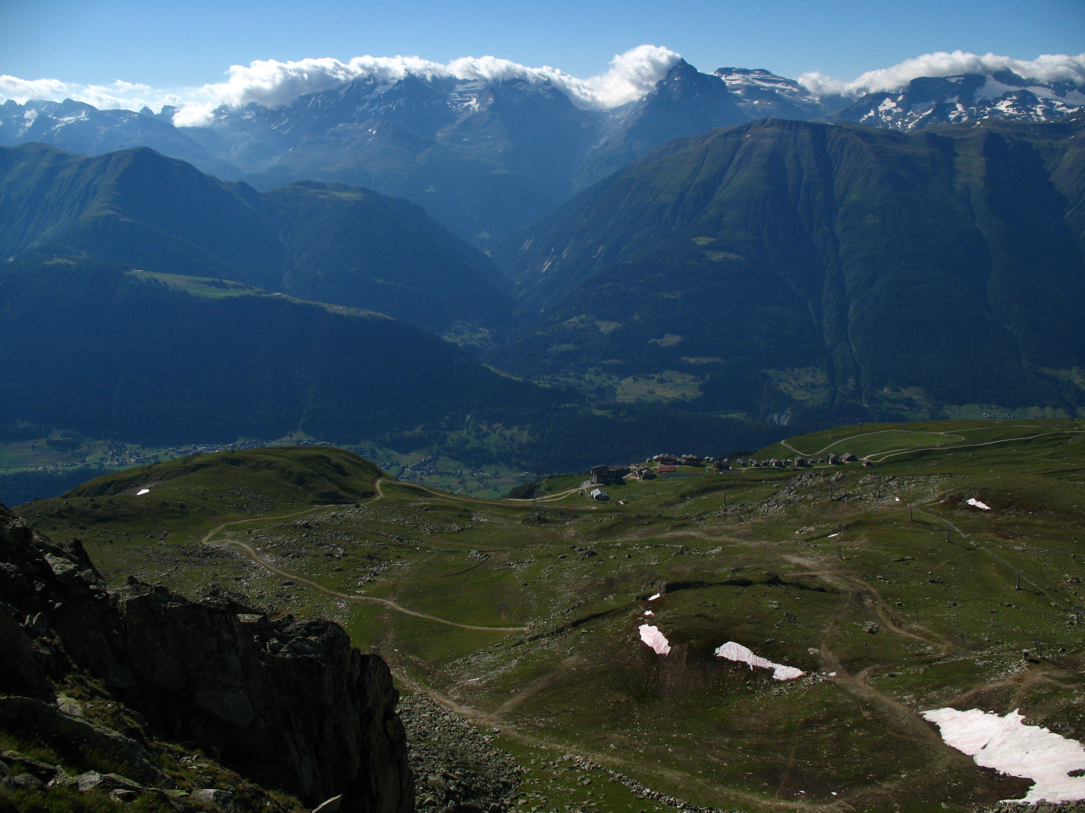 Fiescheralp viewed from Eggishorn, Switzerland